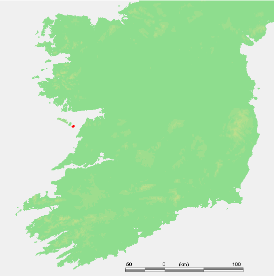 Ireland - Inisheer.PNG